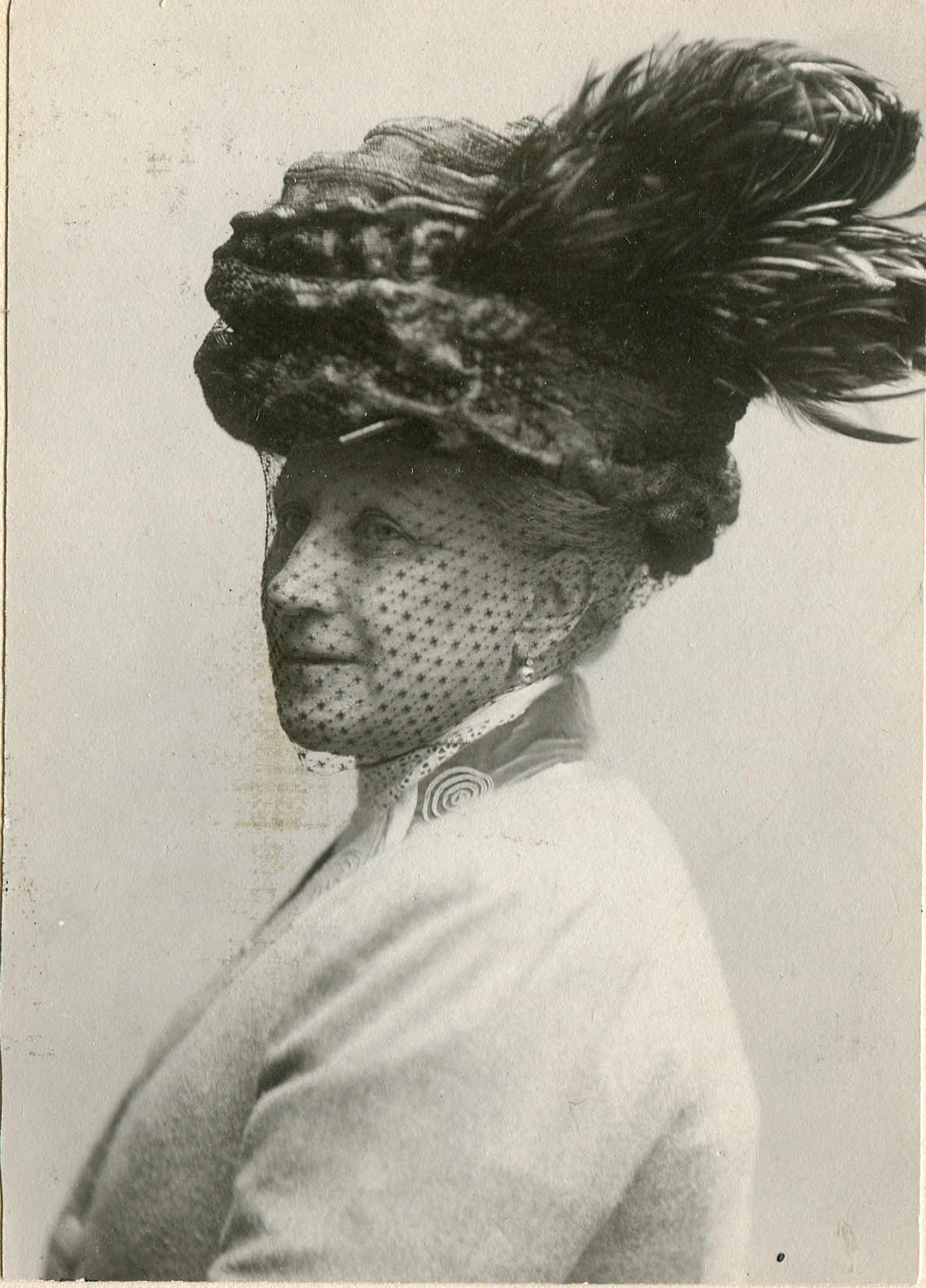 Anastasia Evgen'evna Troinitskaya, wife of senator Troinotsky, daughter of Evgeniy Iv. Yakushikin